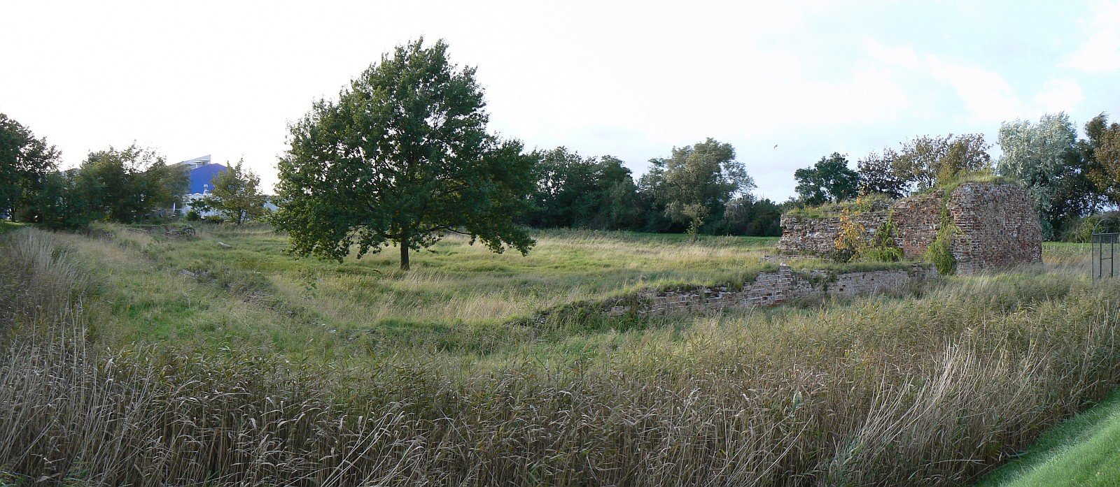 Glambek castle ruins in Burg auf Fehmarn (Burgtiefe).